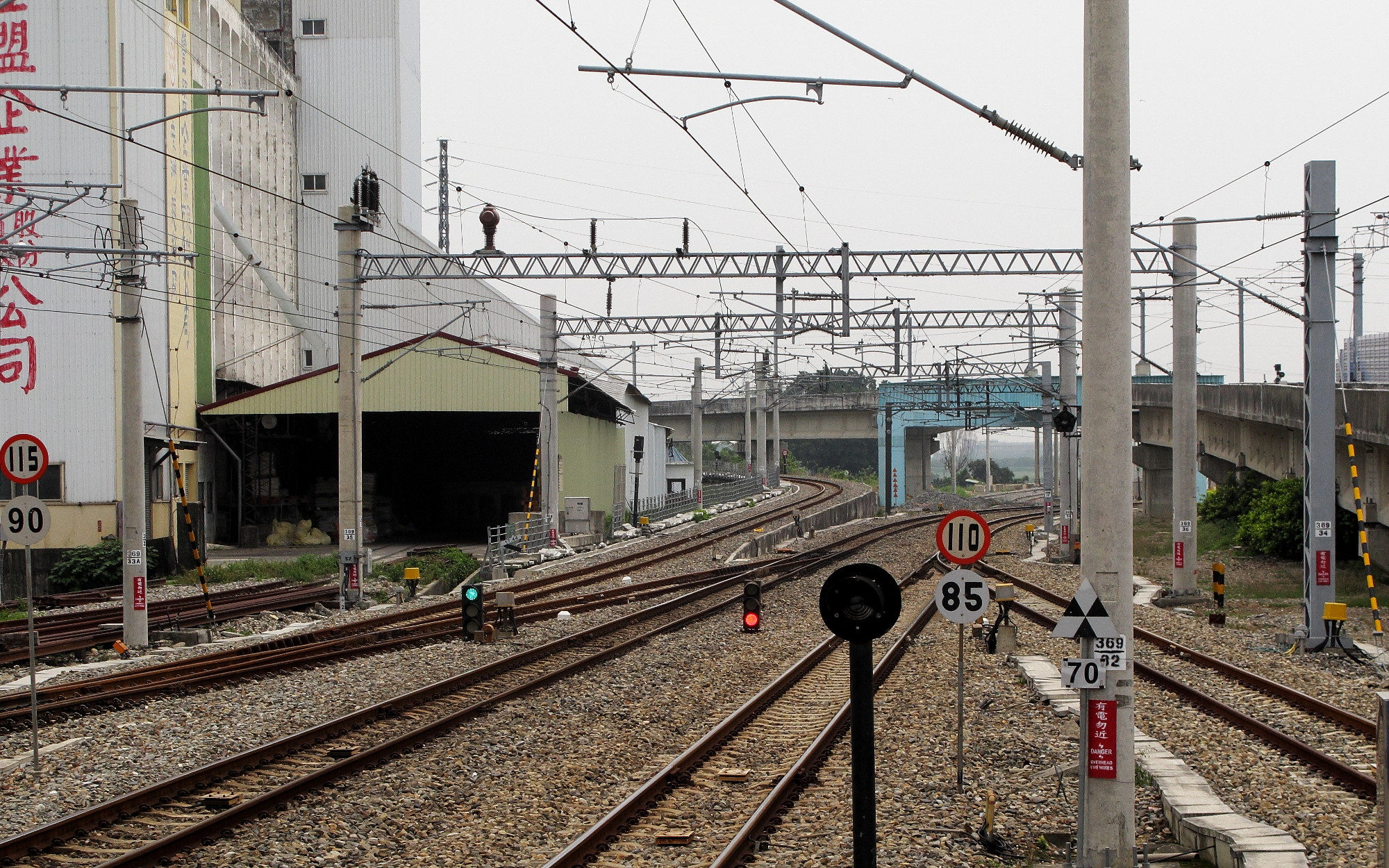 TRA Jhongjhou Station